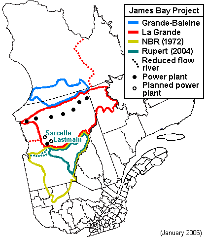 Watersheds affected by the James Bay Project (Grande-Baleine, suspended in 1994; La Grande; Nottaway-Broadback-Rupert (NBR), 1972, suspended; Rupert, 2004, environmental assessment in progress). Modification of "Image:Quejam2.PNG".